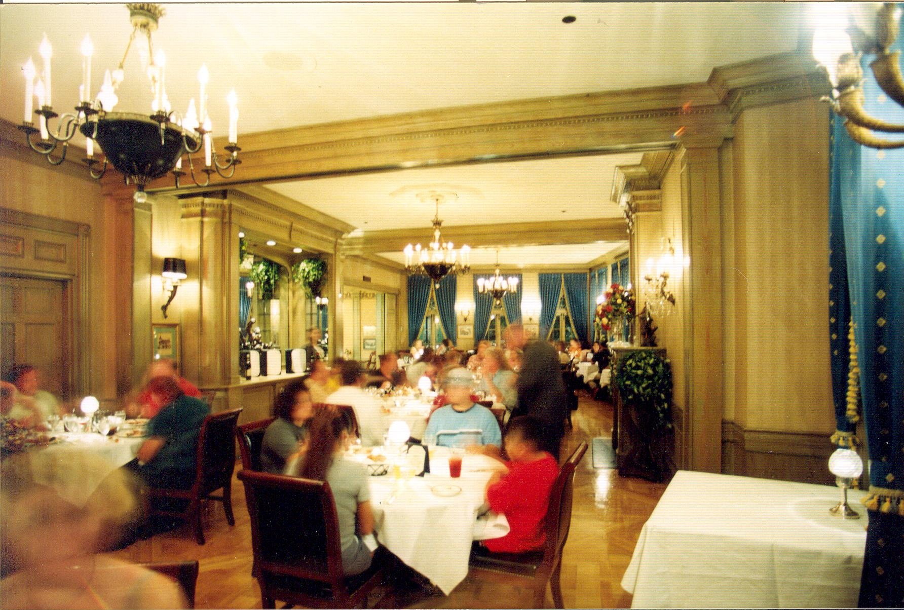 Main Dining Room of Club 33